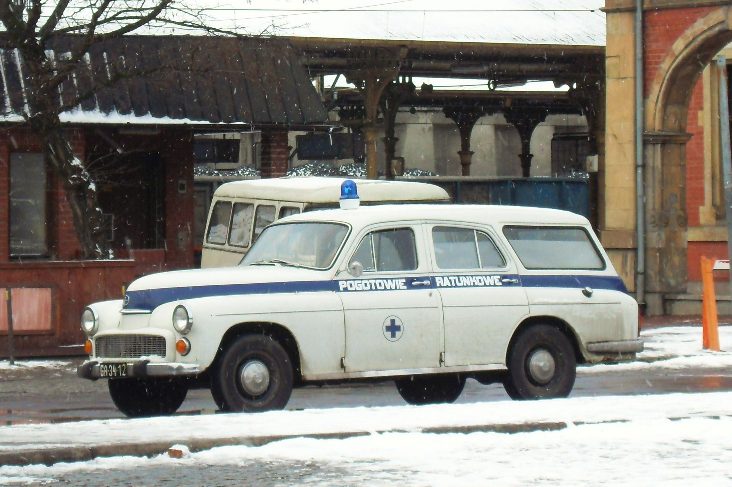 "Wałęsa" the movie set in Gdańsk.